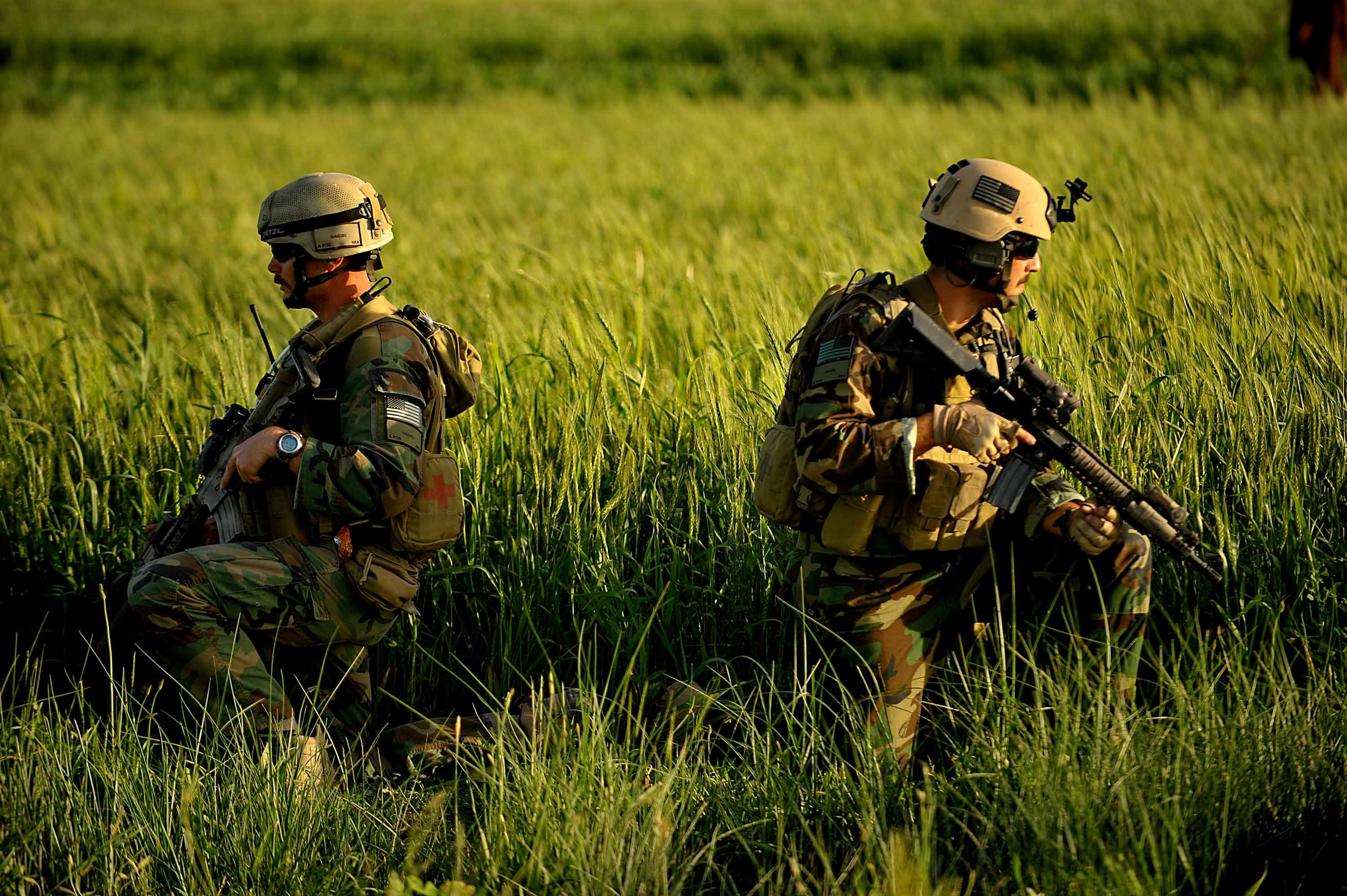 MARSOC Marines take a knee in a wheat field in Suji as Afghan National Army Soldiers and Marine Special Operation Command Marines patrol through the village in Farah province, Bala Baluk District, Afghanistan, March 29. The coalition forces started the three-day CRP lead by the ANA with a dismounted patrol through Suji, Peyo and Pasaw, an air drop of humanitarian aide supplies for Aka Sadiq and a route recon through the mountainous terrain of eastern Bala Baluk.